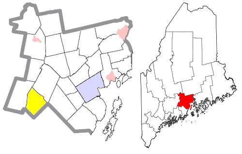 Map of the divisions of Waldo County, Maine, United States, with the town of Liberty highlighted in yellow. The city of Belfast is light blue; other towns are white; and pink areas are census-designated places within towns.